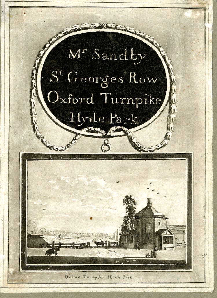 Trade card of Paul Sandby, drawing master. Paper, undated. Courtesy of the British Museum, London.